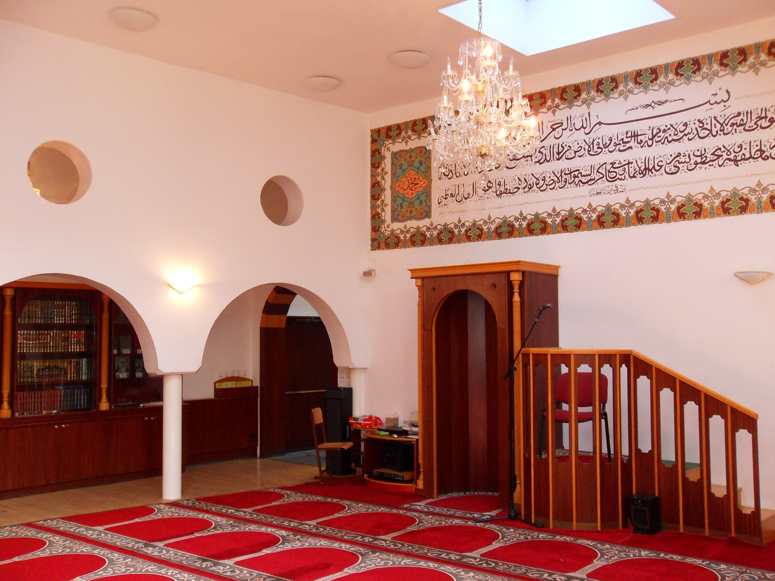 Mosque, Brno, Czech Republic